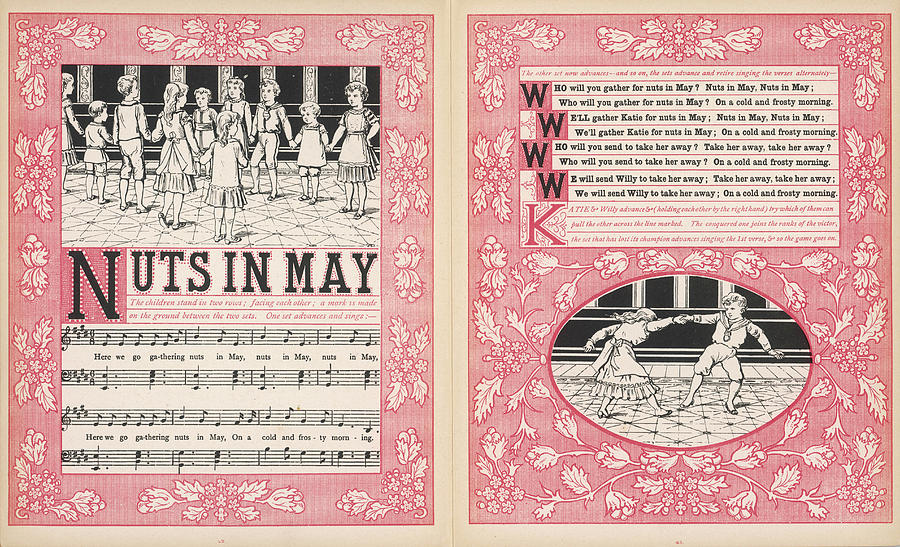 The words, rules and tune for "Here we go gathering nuts in May", collected by the Hon. Emmeline M. Plunket’s in Merry Games in Rhymein ye olden time (London, 1886)